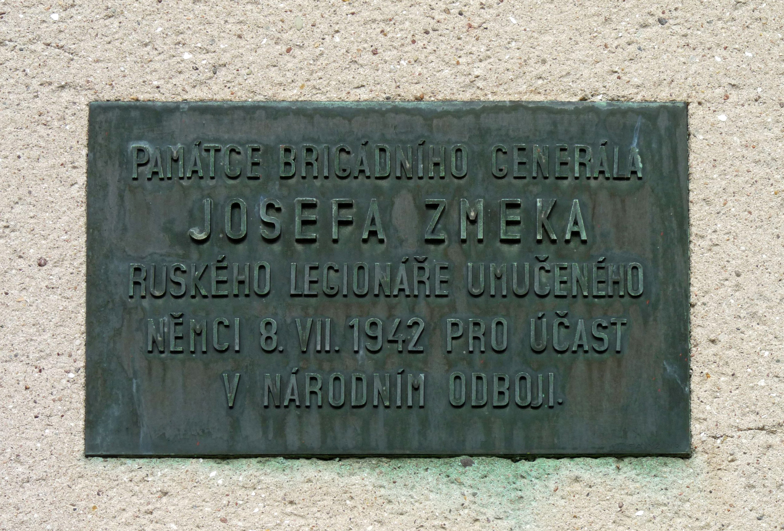 Plaque on house No 58 in the village of Počátky, Havlíčkův Brod District, Vysočina Region, Czech Republic.